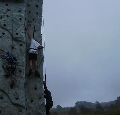 BPSA Scouts practising climbing skills